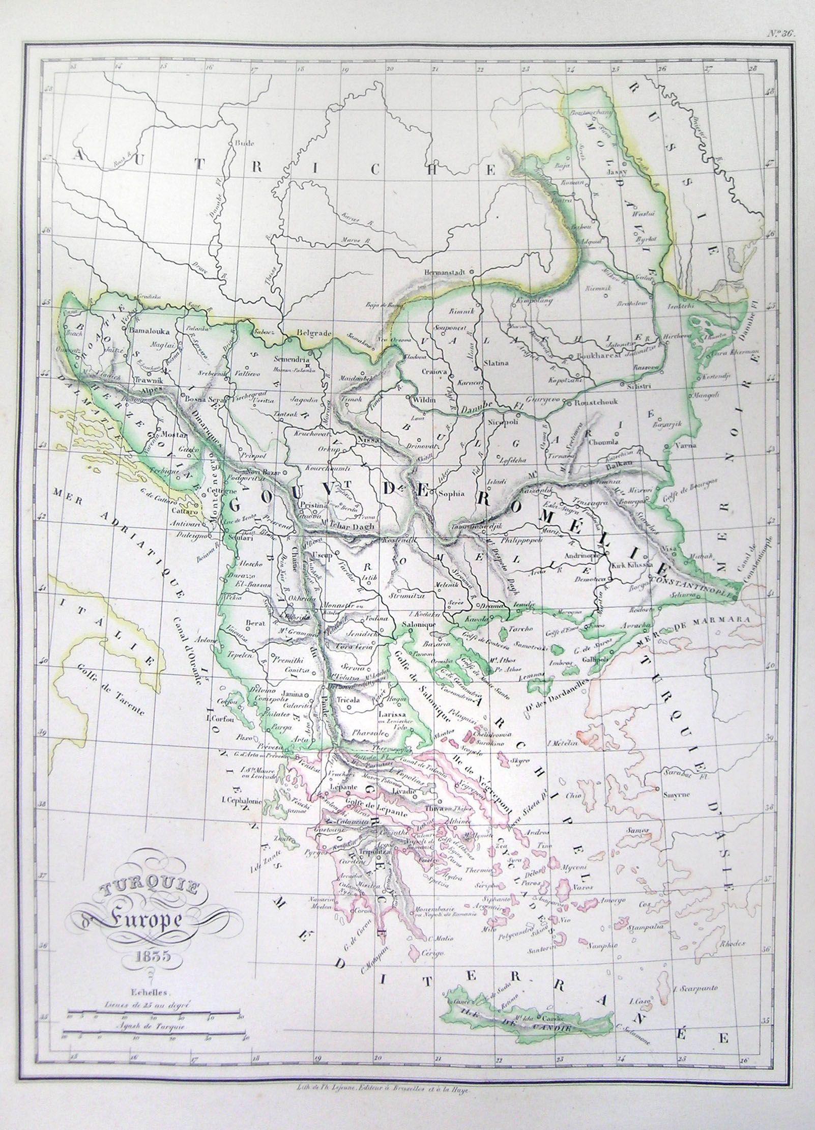 This is a beautiful 1835 hand colored map of Turkey or the Ottoman Empire as it extended into Europe during the early 19th century. Includes all of modern day Greece and the Balkans. All text is in French.